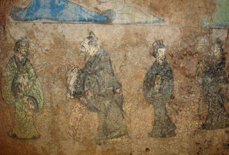 (071016) -- JINAN, Oct. 16, 2007 (Xinhua) -- Photo taken on Oct. 13, 2007 shows part of a fresco found in a tomb in an old residential yard in Dongping County, east China's Shandong Province. The fresco, discovered in a tomb dating back to about 2,000 years ago, is well preserved with images of drinking, dancing, cock fighting, women servants and historical stories in legible colors, heritage workers said. (Xinhua) (clq)/(zlq)